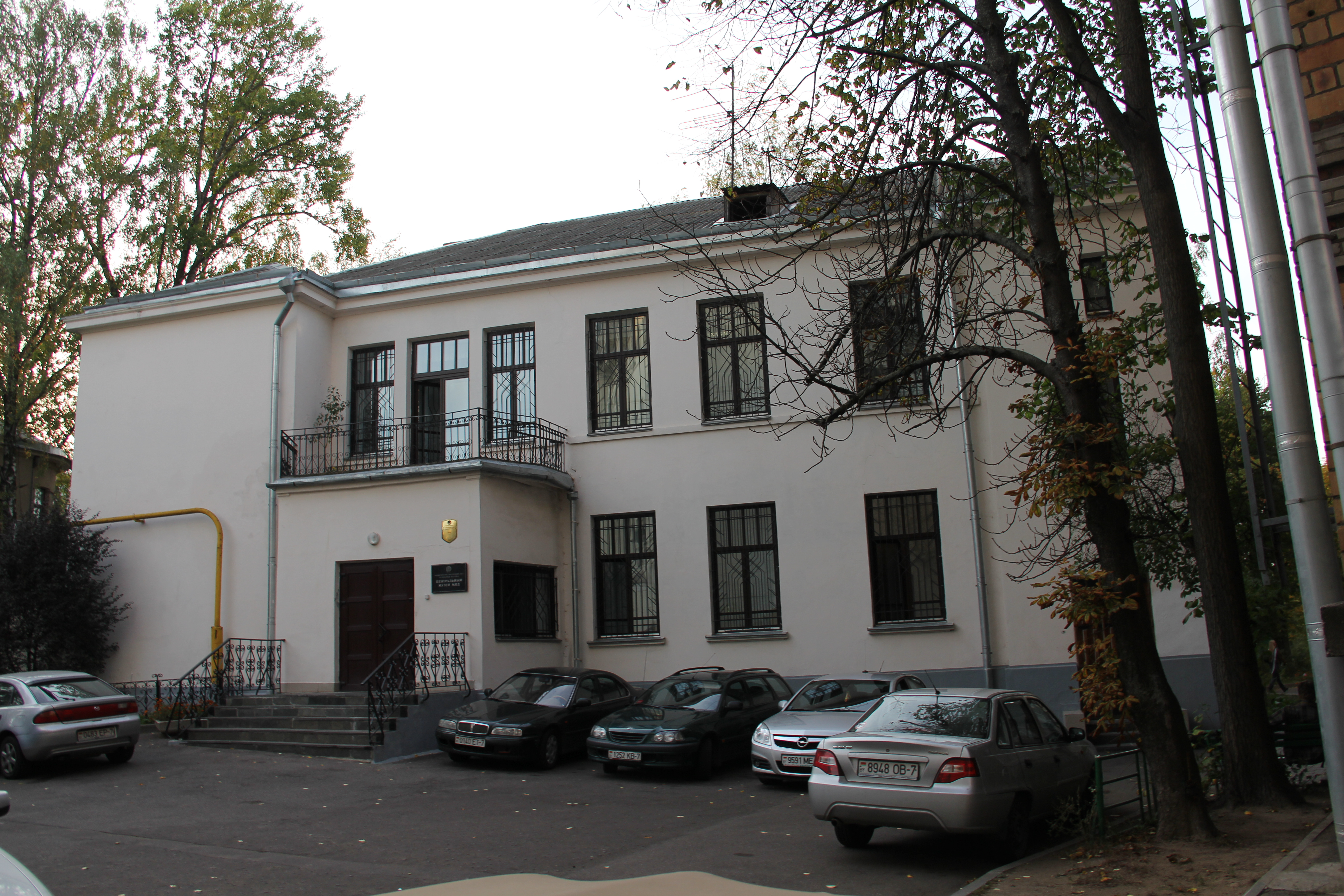 Беларуская (тарашкевіца): Будынак. г. Менск This is a photo of Belarusian heritage monument. Reference number: 713Г000032 ( WLM)